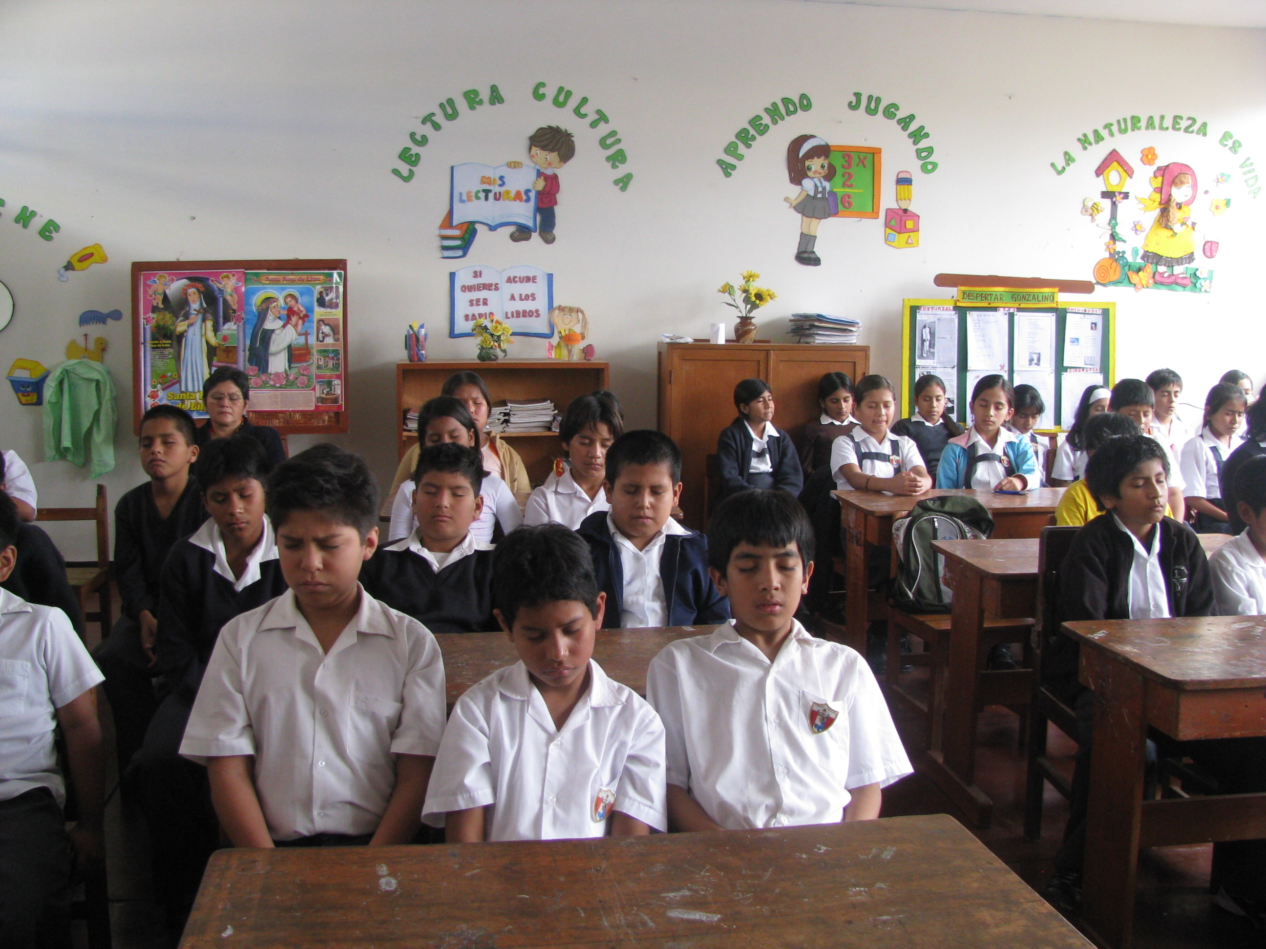 Transcendental Meditation (TM) is taught in 2,000 schools in Latin America, here in Peru, through the David Lynch Foundation, the program is called "A Consciousness-Based Education".